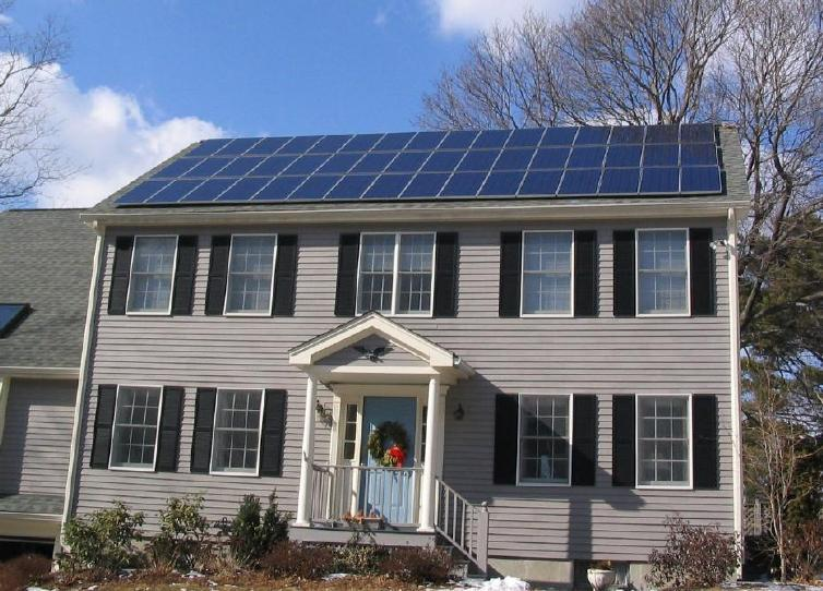 Photovoltaic solar cell panels on the roof of a house near Boston Massachusetts.